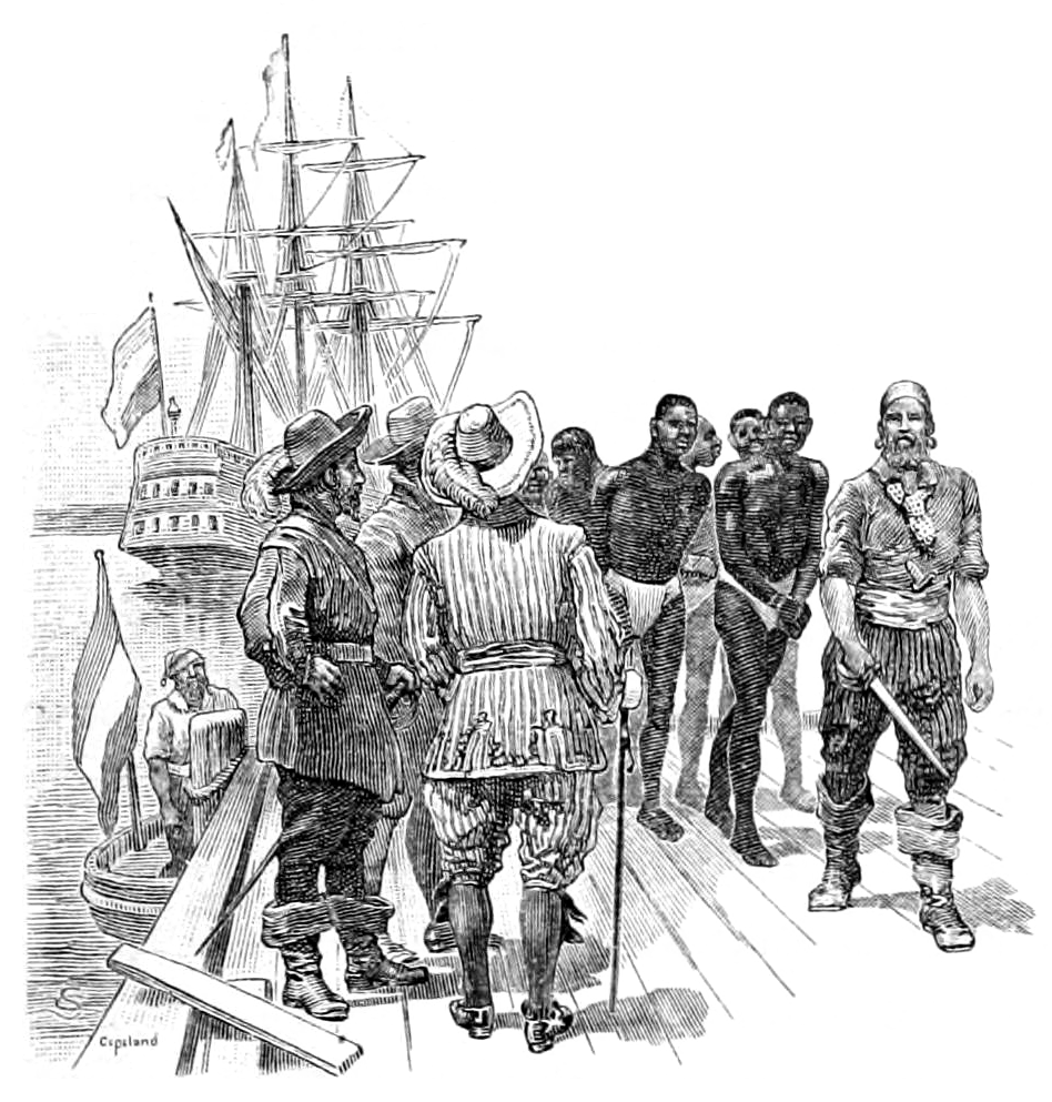 Illustration captioned "The First Negro Slaves Brought to Virginia" from the 1910 edition of The Leading Facts of American History